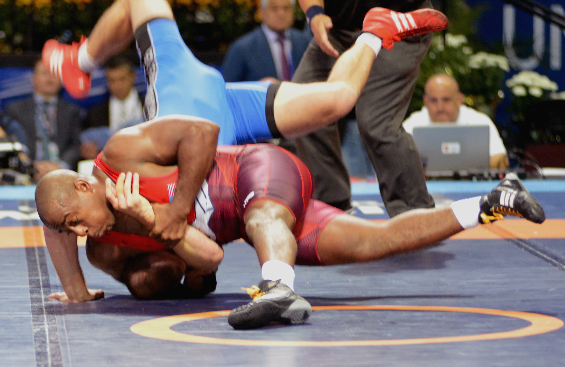 Sgt. Justin "Harry" Lester of the U.S. Army World Class Athlete Program throws Balint Korpasi of Hungary en route to an 8-0 technical superiority victory in the qualification round of the men's 71-kilogram Greco-Roman division of the 2015 World Wrestling Championships on Tuesday at the Orleans Arena in Las Vegas. U.S. Army photo by Tim Hipps, IMCOM Public Affairs